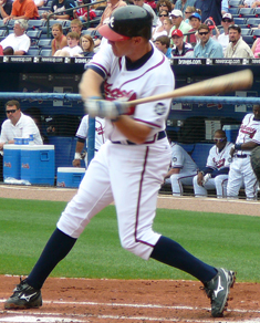 I took this photo on June 5, 2007 08:02, 8 June 2007 . . Chrisjnelson . . 235×292 (144,108 bytes)